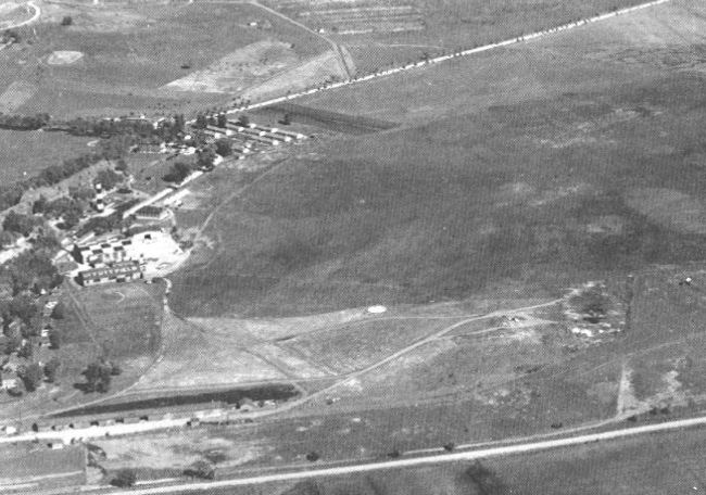 Offut Field, Nebraska, October 1936